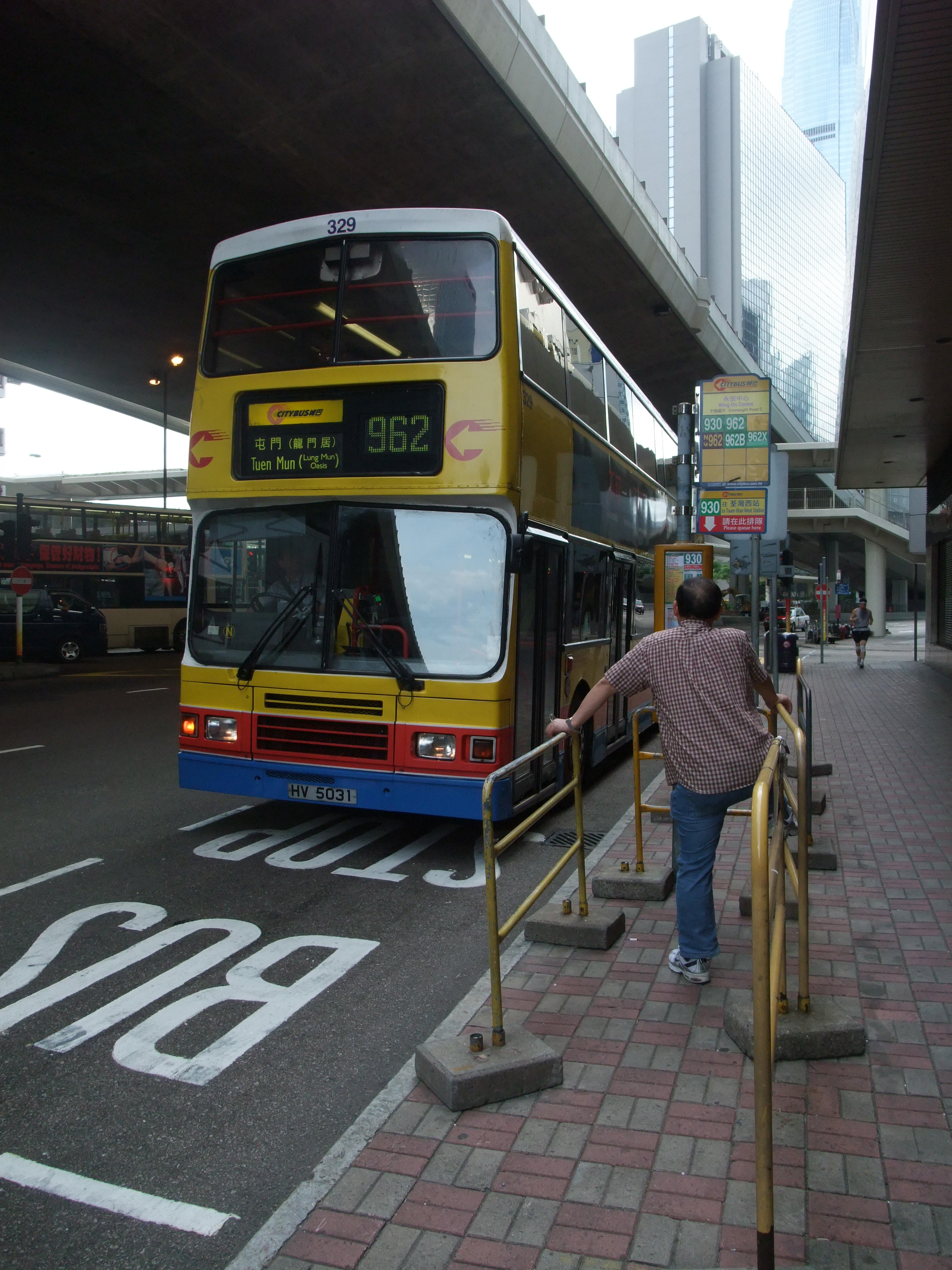 Photo of Citybus Route 962